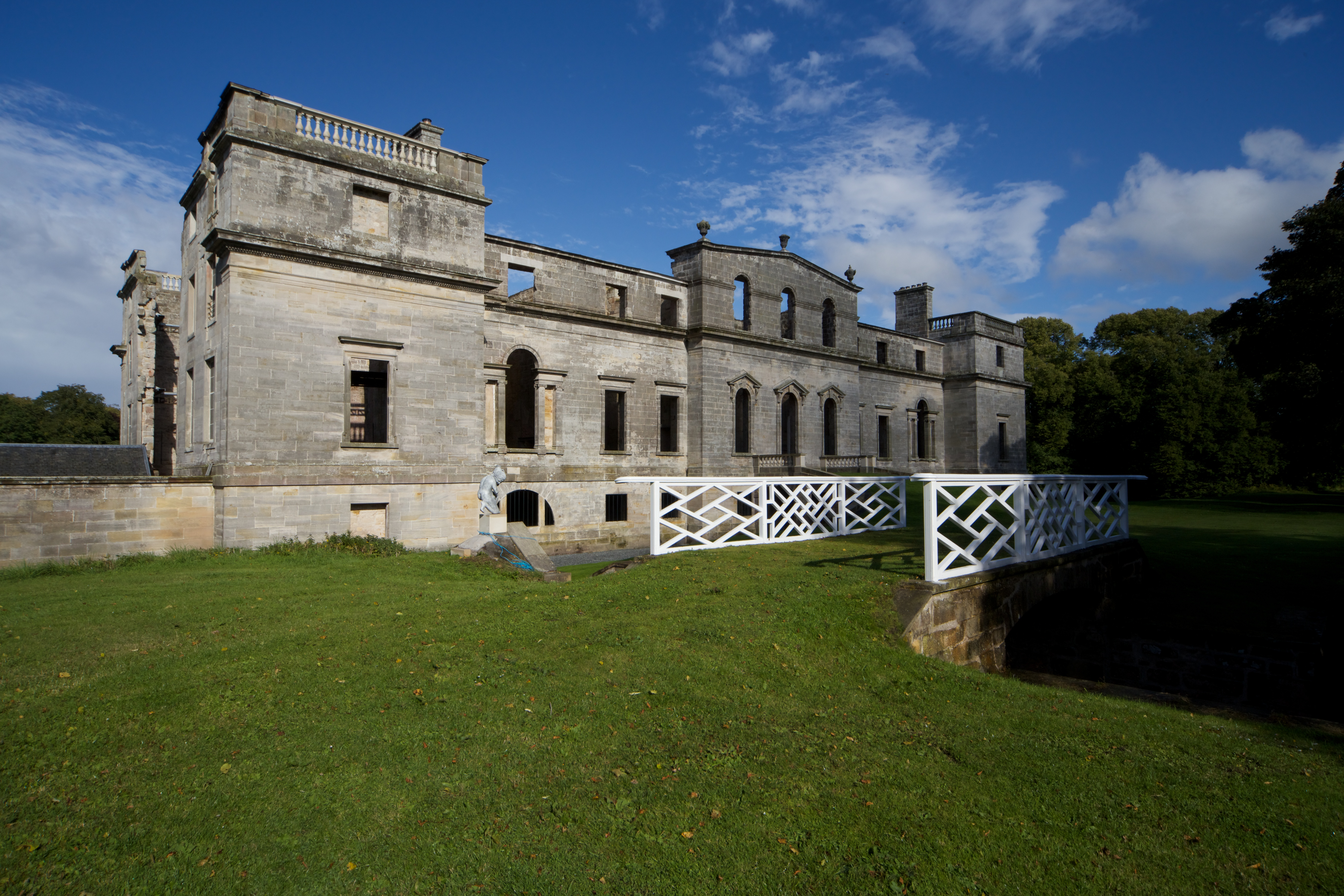 Penicuik House Wikidata has entry Q7162873 with data related to this item.